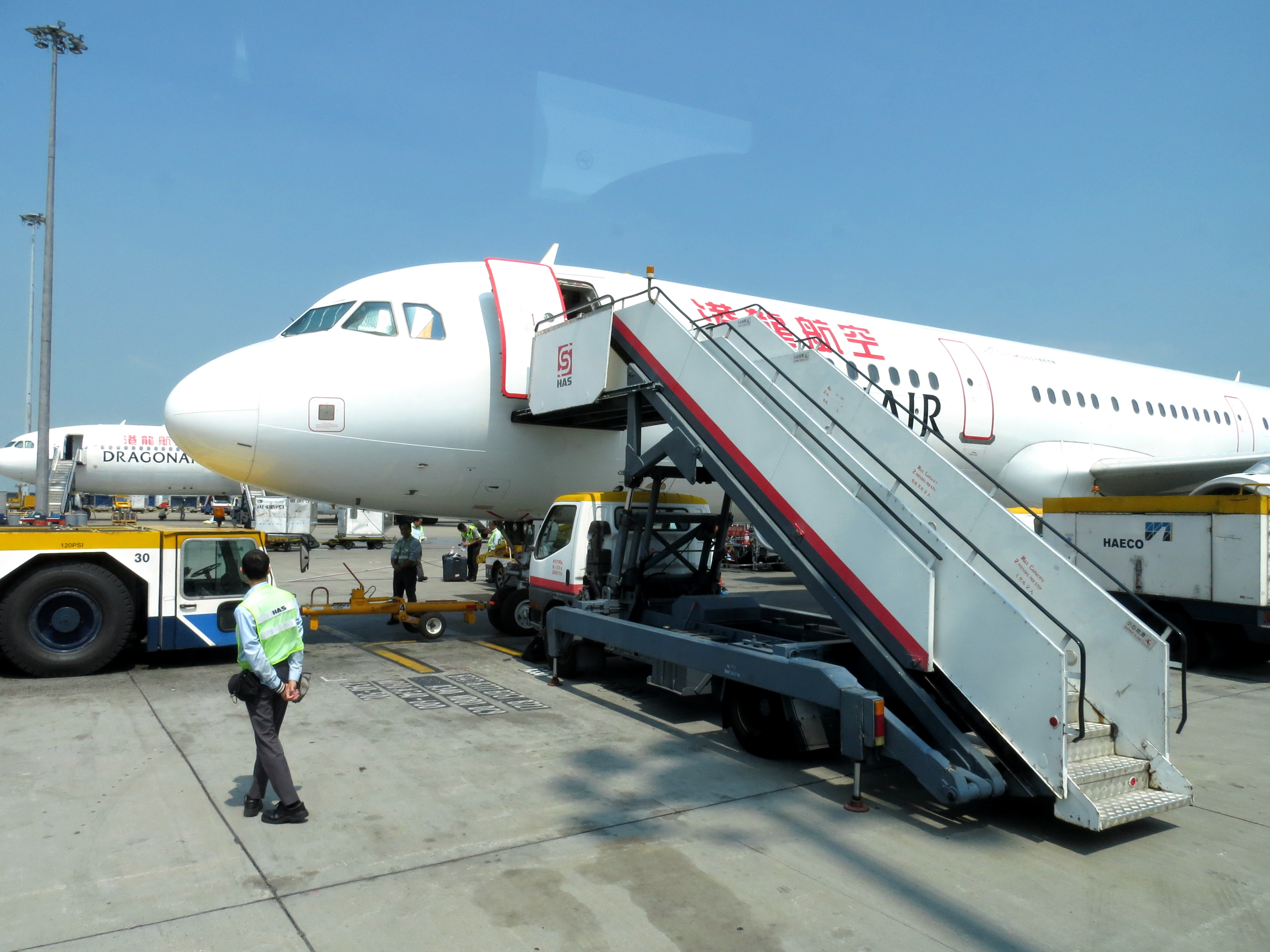 A Dragonair Airbus A321 at the Hong Kong International Airport.